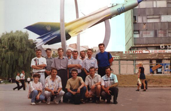 James' Students, Vinnitsa, Ukraine 1999